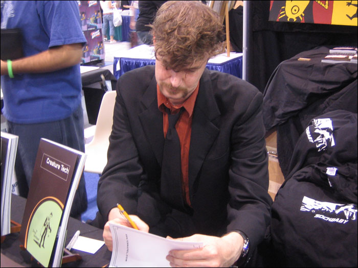 he is the creator of earthworm jim and a cool guy. he drawing in greg's sketchbook.